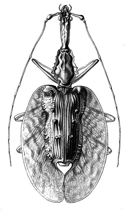 Mário NET edition of an ancient illustration of the Borneo beetle, Mormolyce phyllodes ssp. phyllodes.